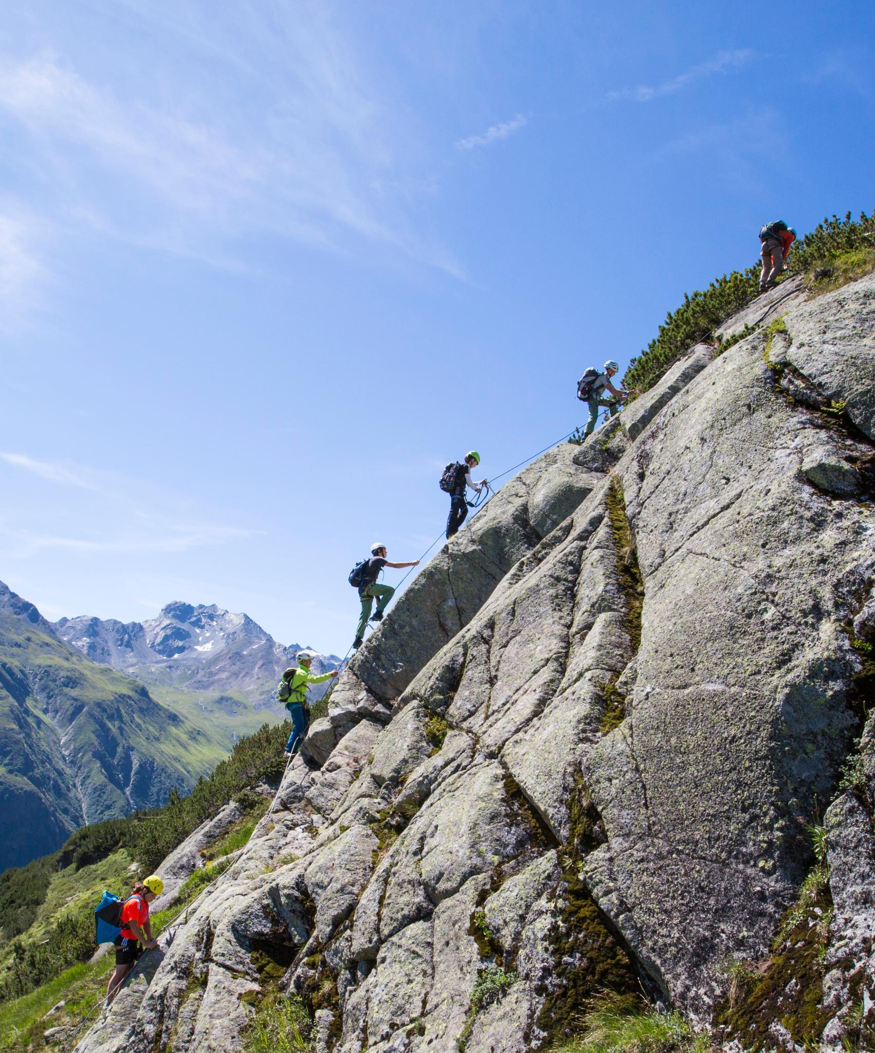 family friendly mountaineering range in Montafon valley